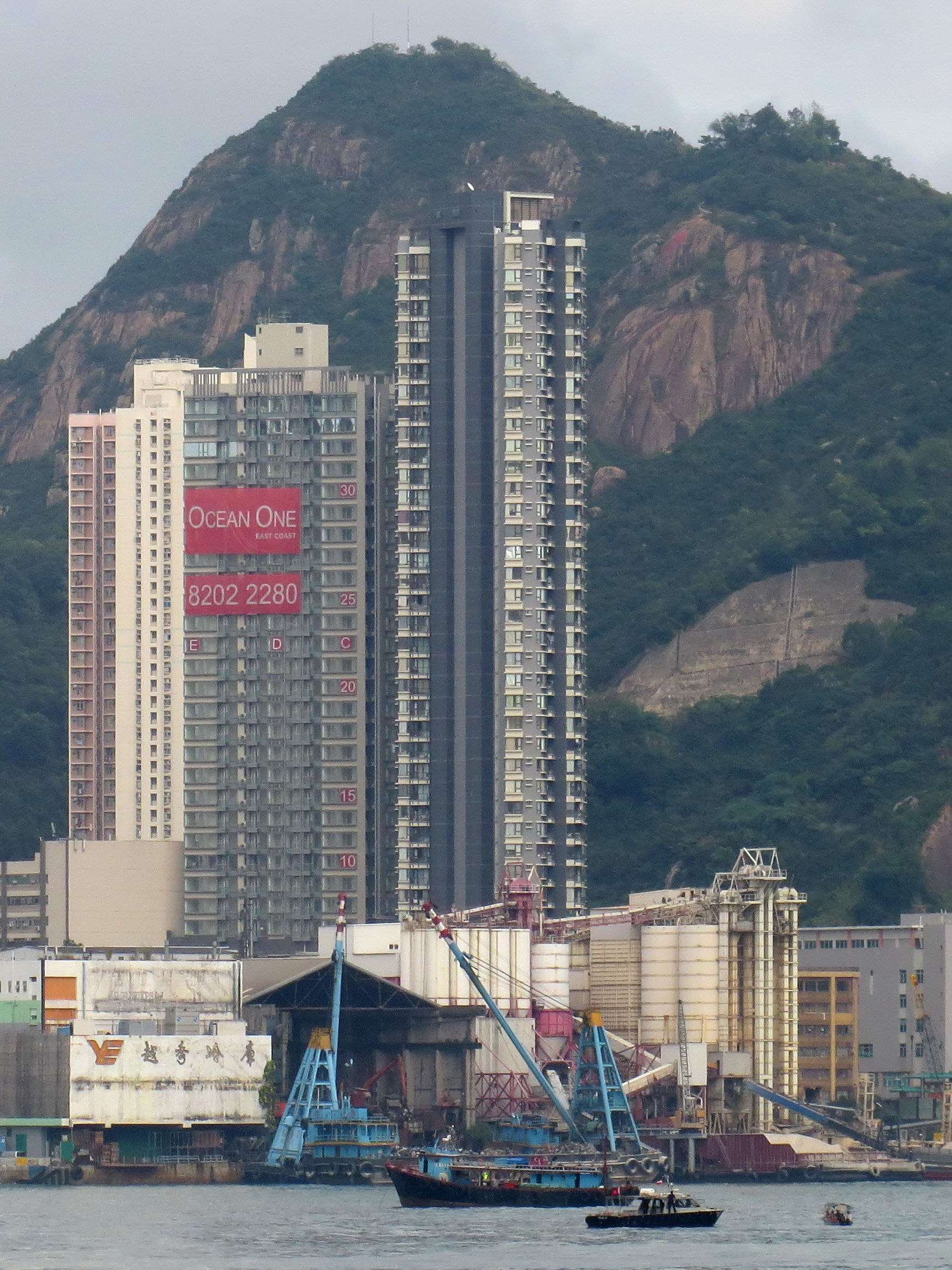 Canaryside (building on the right) (8 Shung Shun Street, Yau Tong, Kowloon, Hong Kong)